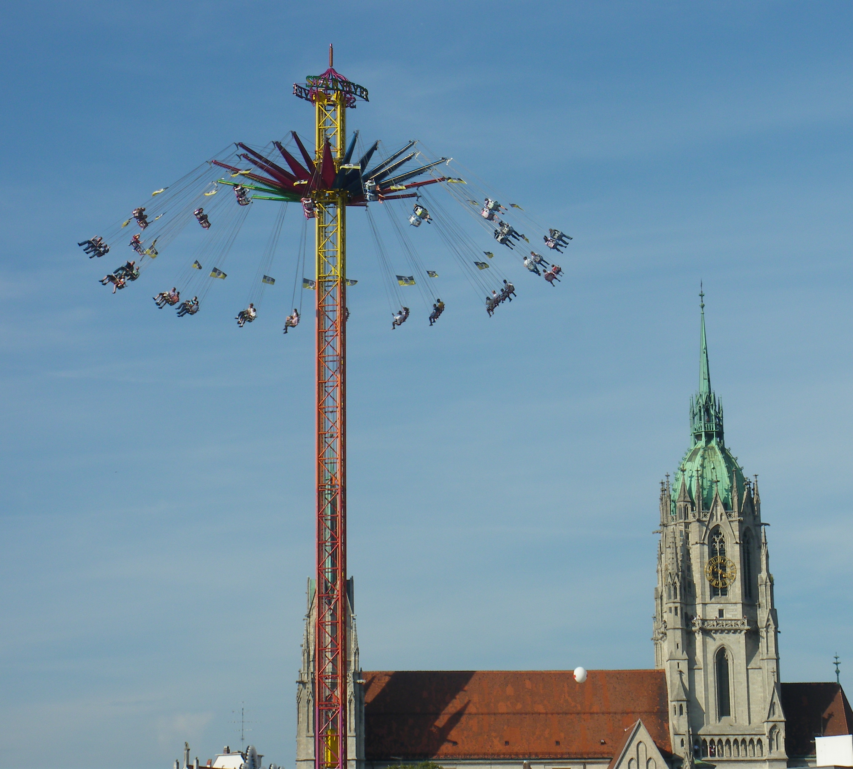 Star flyer, Oktoberfest 2011